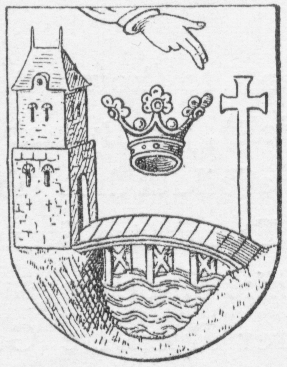 Coat of arms of Køge, a chartered town in Denmark, 1574 version. Illustration from the article Om danske By- og Herredsvaaben written by Anders Thiset and published in Tidsskrift for Kunstindustri 1893-1894.